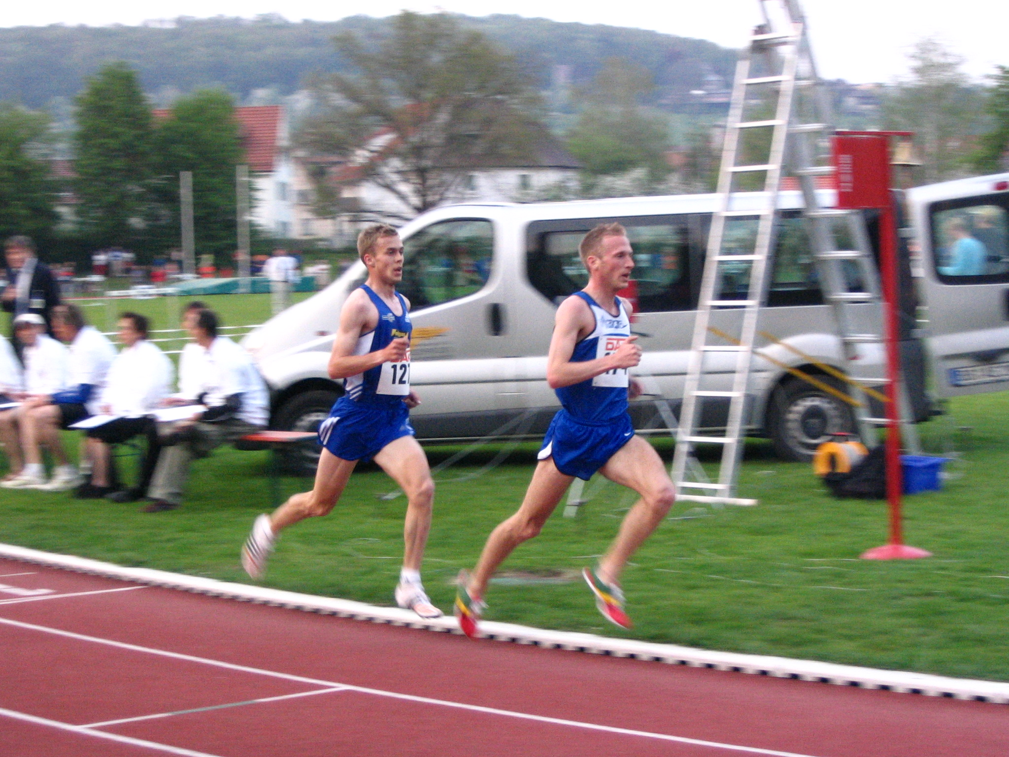 André Pollmächer (left) and Jan Fitschen at the German 10000 m championship in Tübingen, 2006.